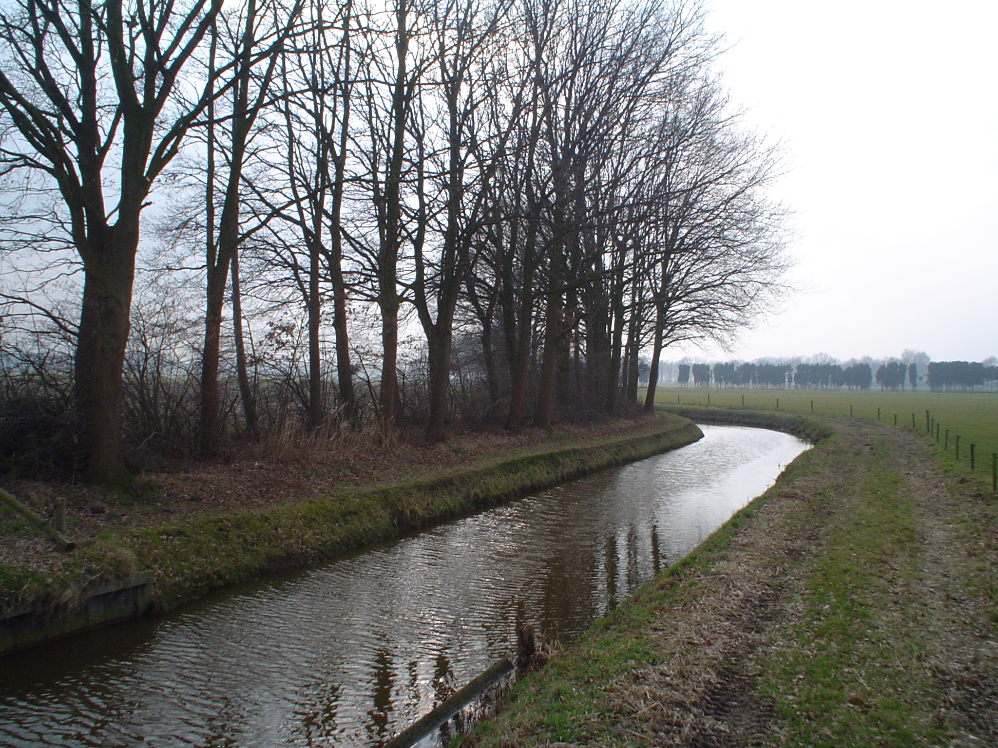 The stream Run, near the Heerseweg in Veldhoven, Netherlands